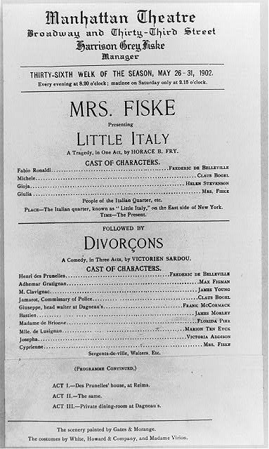 Title: Playbill with cast of characters, starring Minnie Maddern Fiske, in "Little Italy" and "Divorçons" Abstract/medium: 1 print.